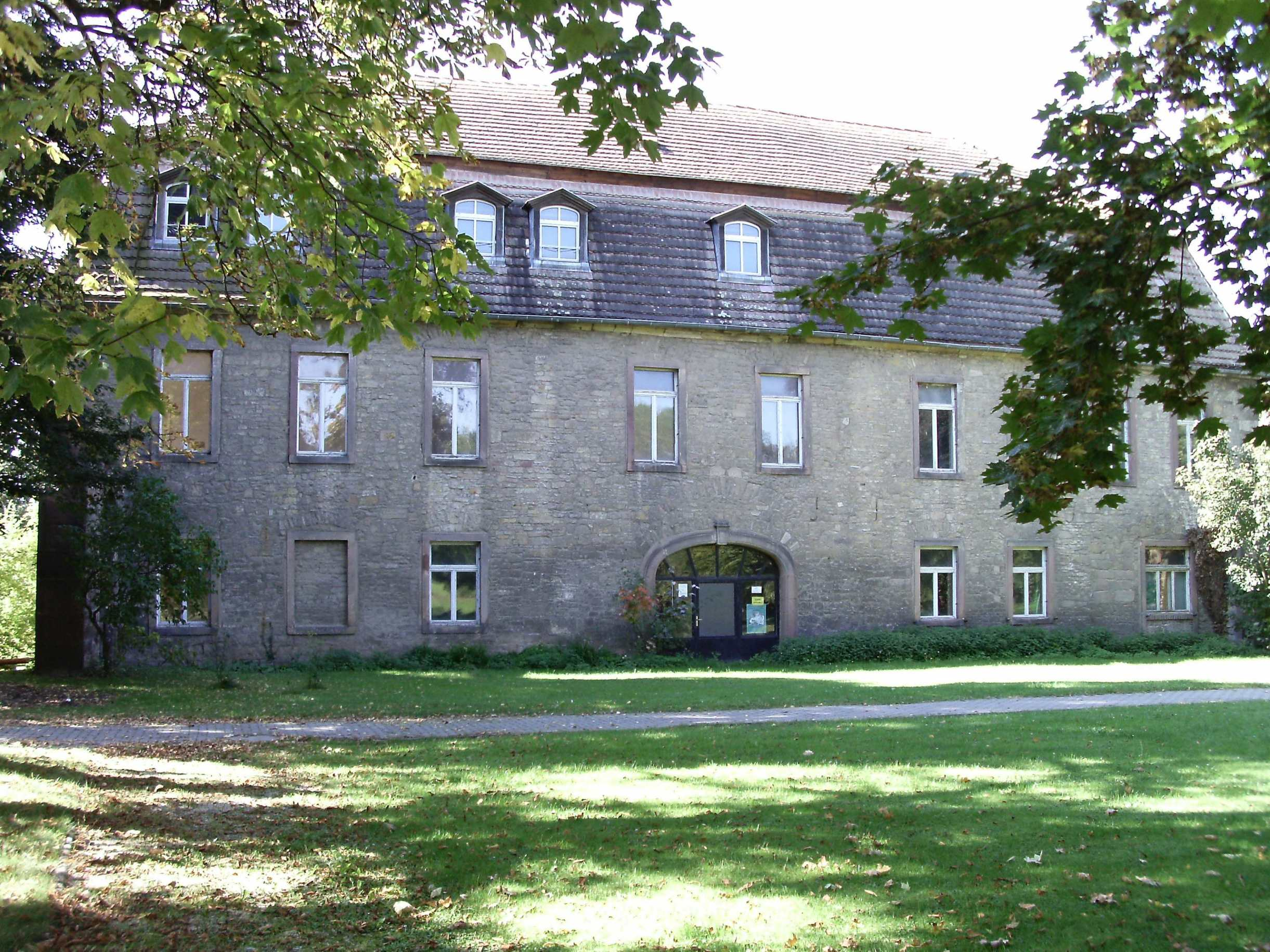 Gleina Castle (district of Burgenlandkreis, Saxony-Anhalt), view from the gardens